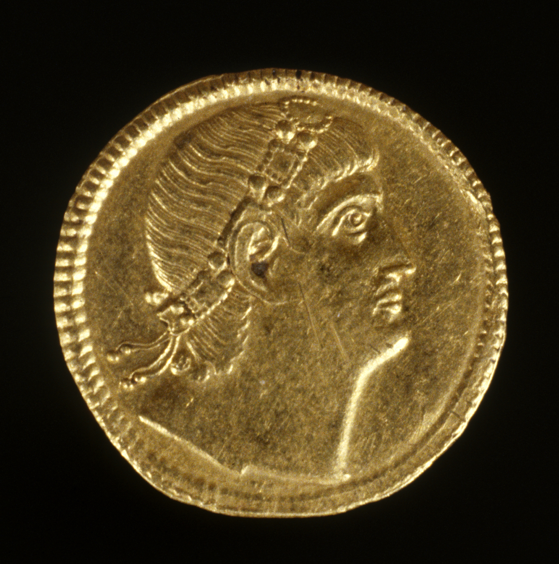 This medallion of Constantine the Great (ruled 306-337) was struck at the mint of Nicomedia (now Izmit, Turkey) for the celebration of the 30th anniversary of his rule. The Latin inscription on the reverse refers to him by name: "Victorious Constantine, Augustus." Anniversaries were often marked by the issue of medallions that served as gifts from the emperor to state officials, military leaders, and others in his favor.